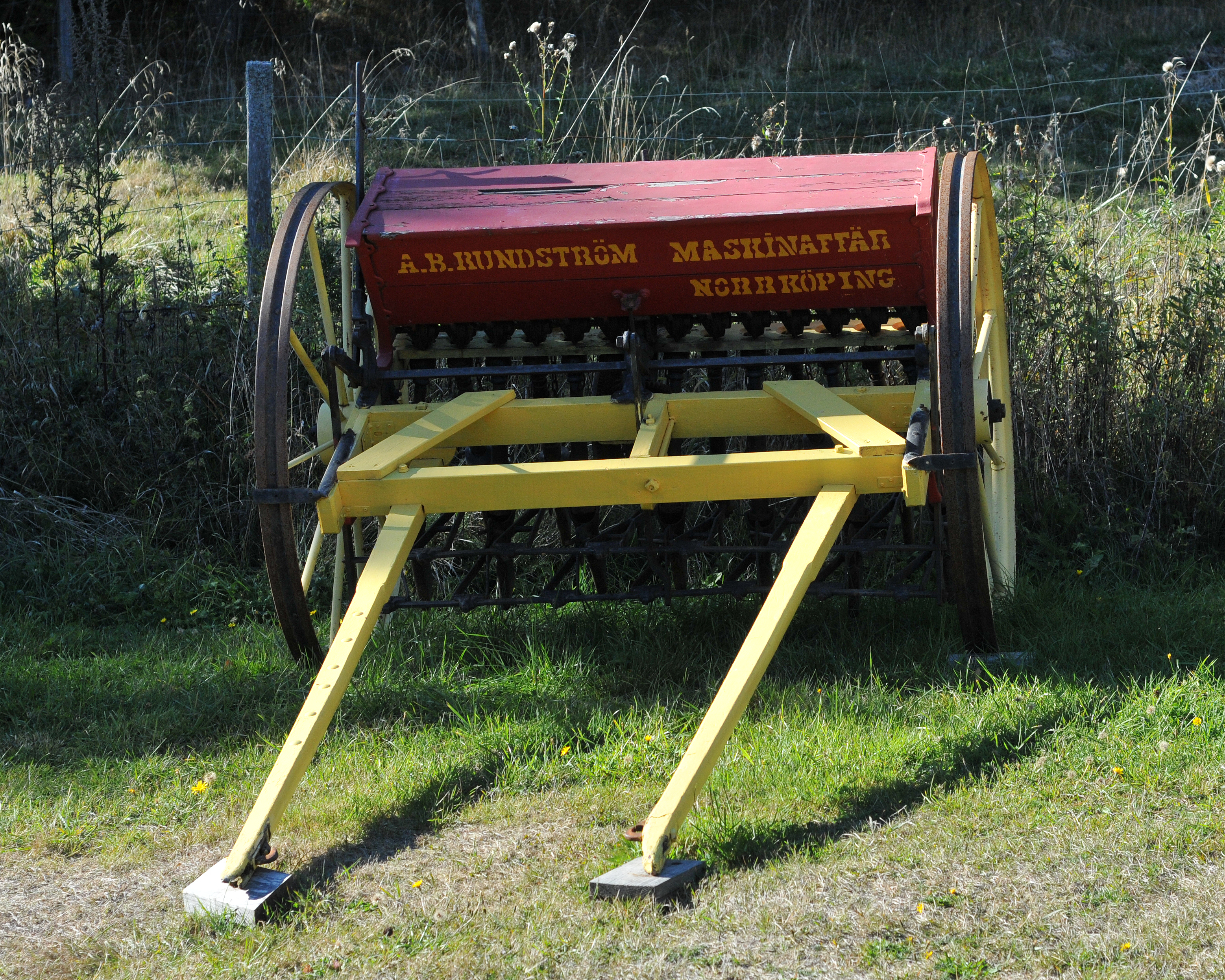 Hästsåmaskin vid Stendörrens naturreservat, Sverige.